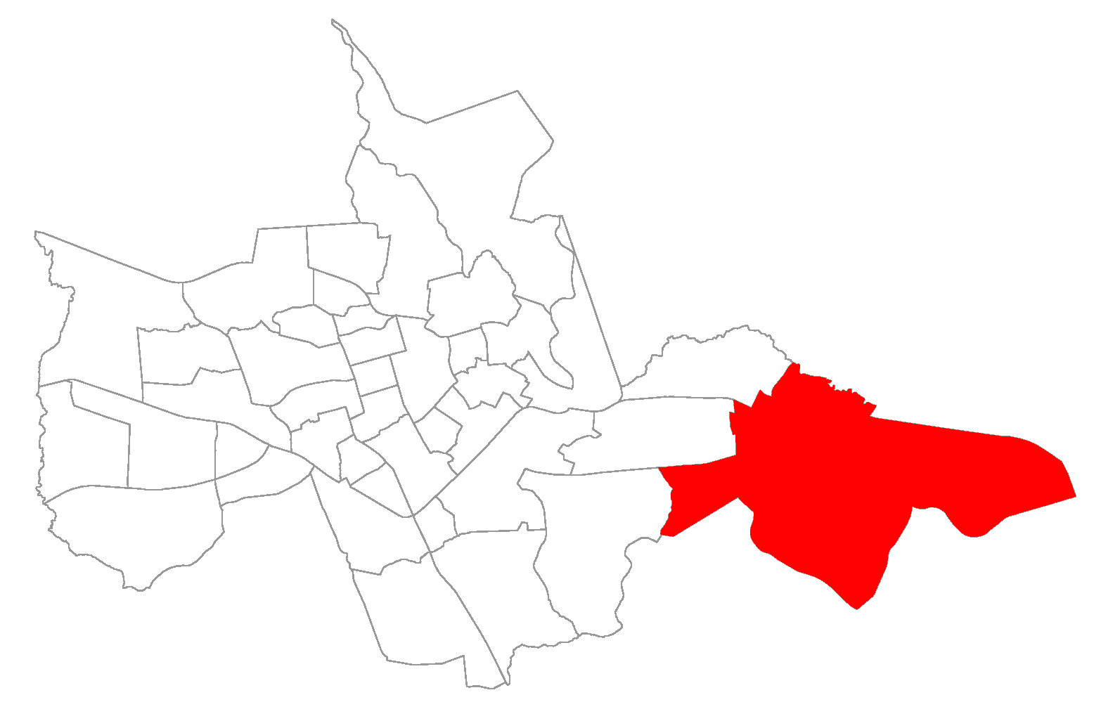 neighborhood/district of Santa Maria, Rio Grande do Sul